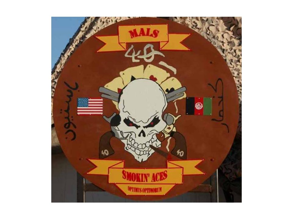 Squadron insignia for MALS-40